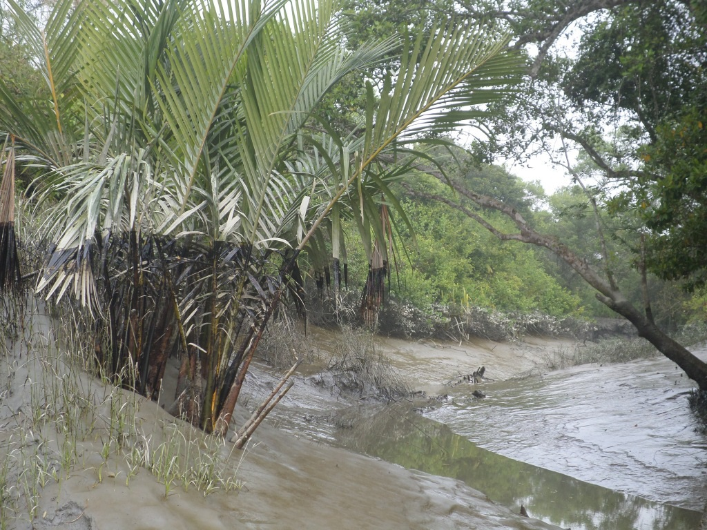 Golpata tree oil covered